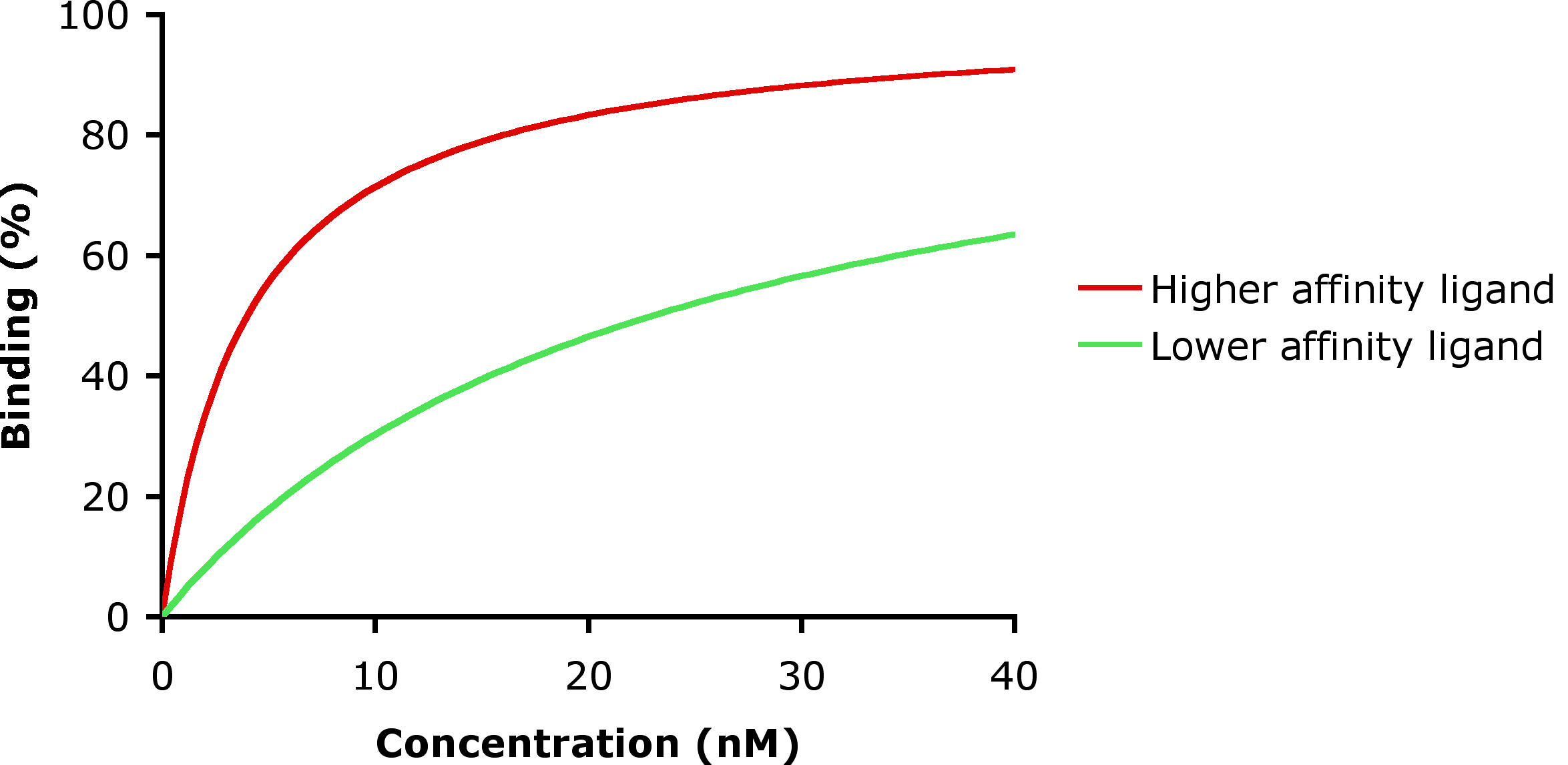 A plot of the proportion of receptors bound with two different agonists at varying agonist concentrations. In this plot, a higher affinity agonist (red) and a lower affinity agonist are compared. Classical binding to the receptors, with Michaelis–Menten kinetics, has been assumed. This plot is in linear-linear co-ordinates. On log-linear coordinates the green curve would have the same shape as the red one, but would be 'right-shifted'.